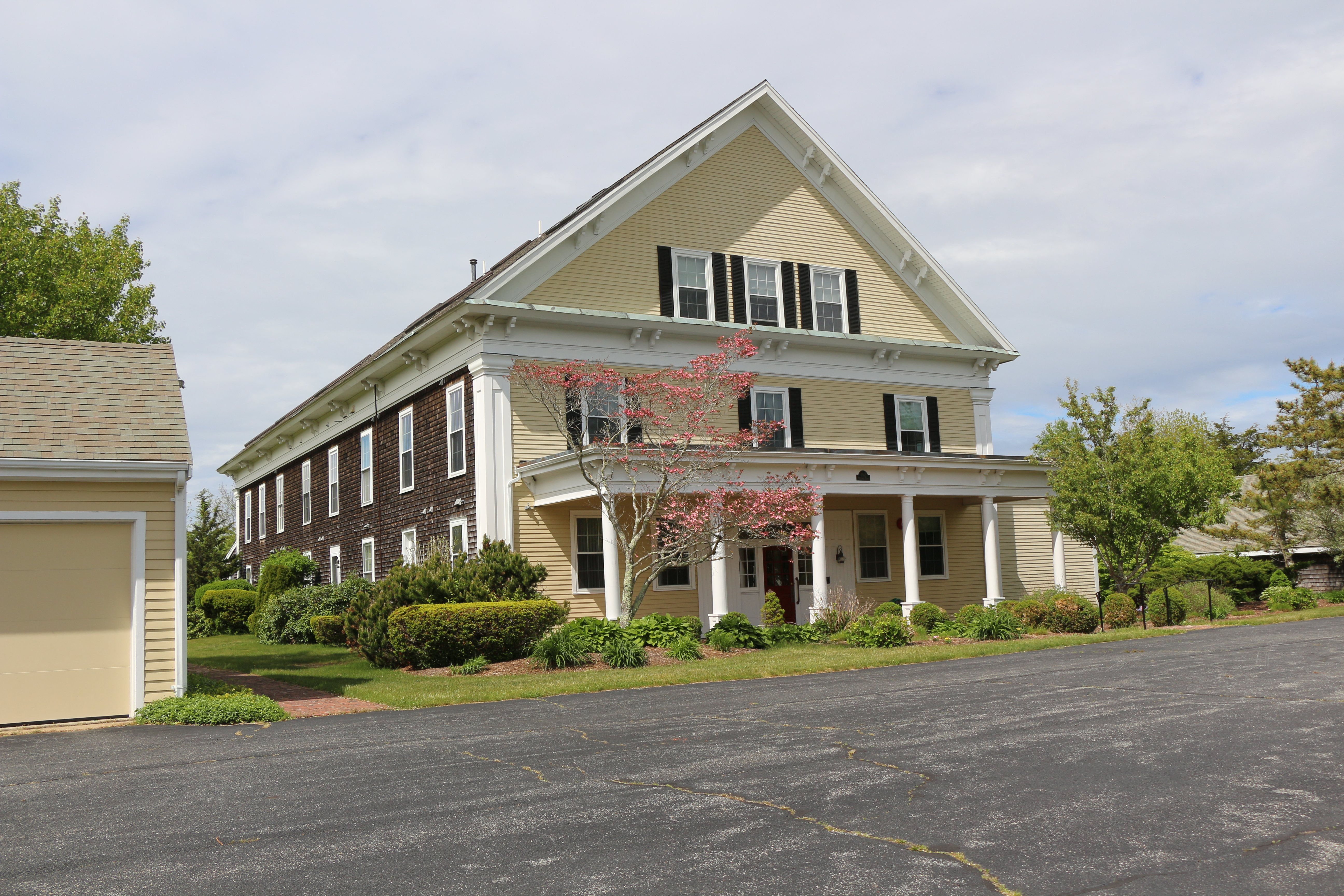 The former Barnstable Fair Hall in Barnstable, Massachusetts.